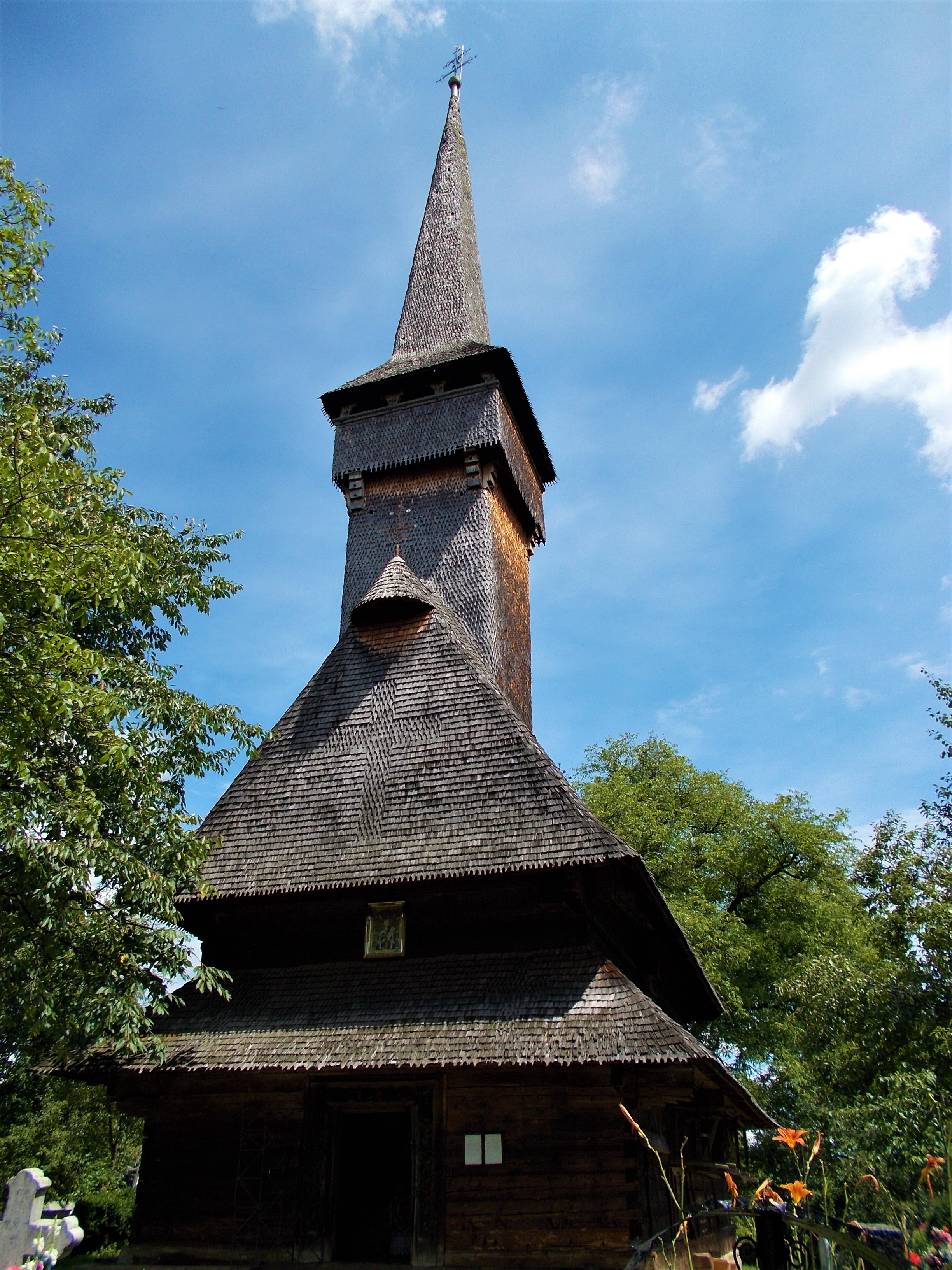 Wooden church in Desești, Maramureș County, Romania